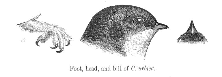 Delichon urbicum